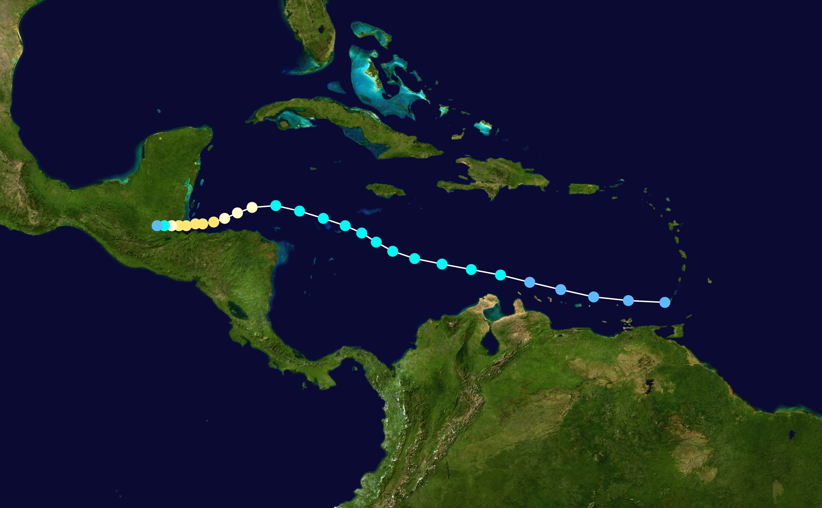 Hurricane Francelia (1969) track. Uses the color scheme from the Saffir-Simpson Hurricane Scale.